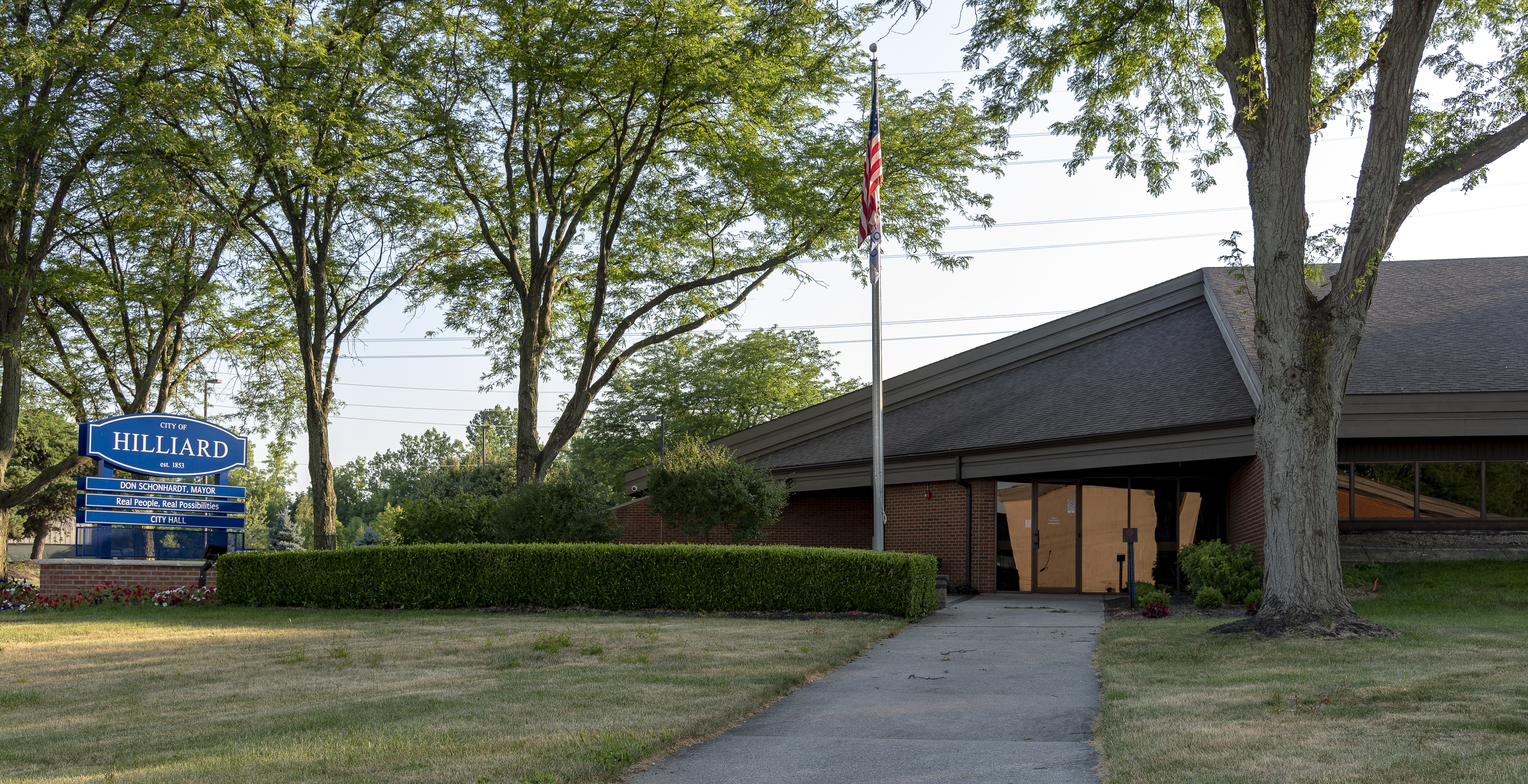 Front of the Hilliard, Ohio City Hall and city administrative center.